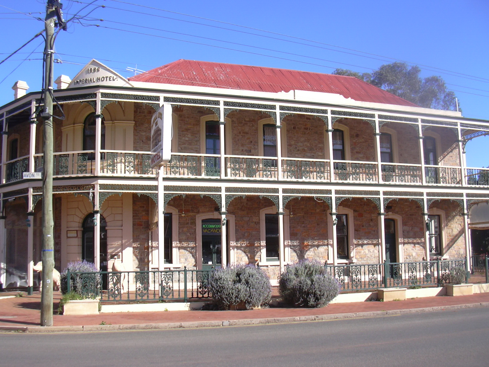 Imperial Hotel (1886), York, Western Australia